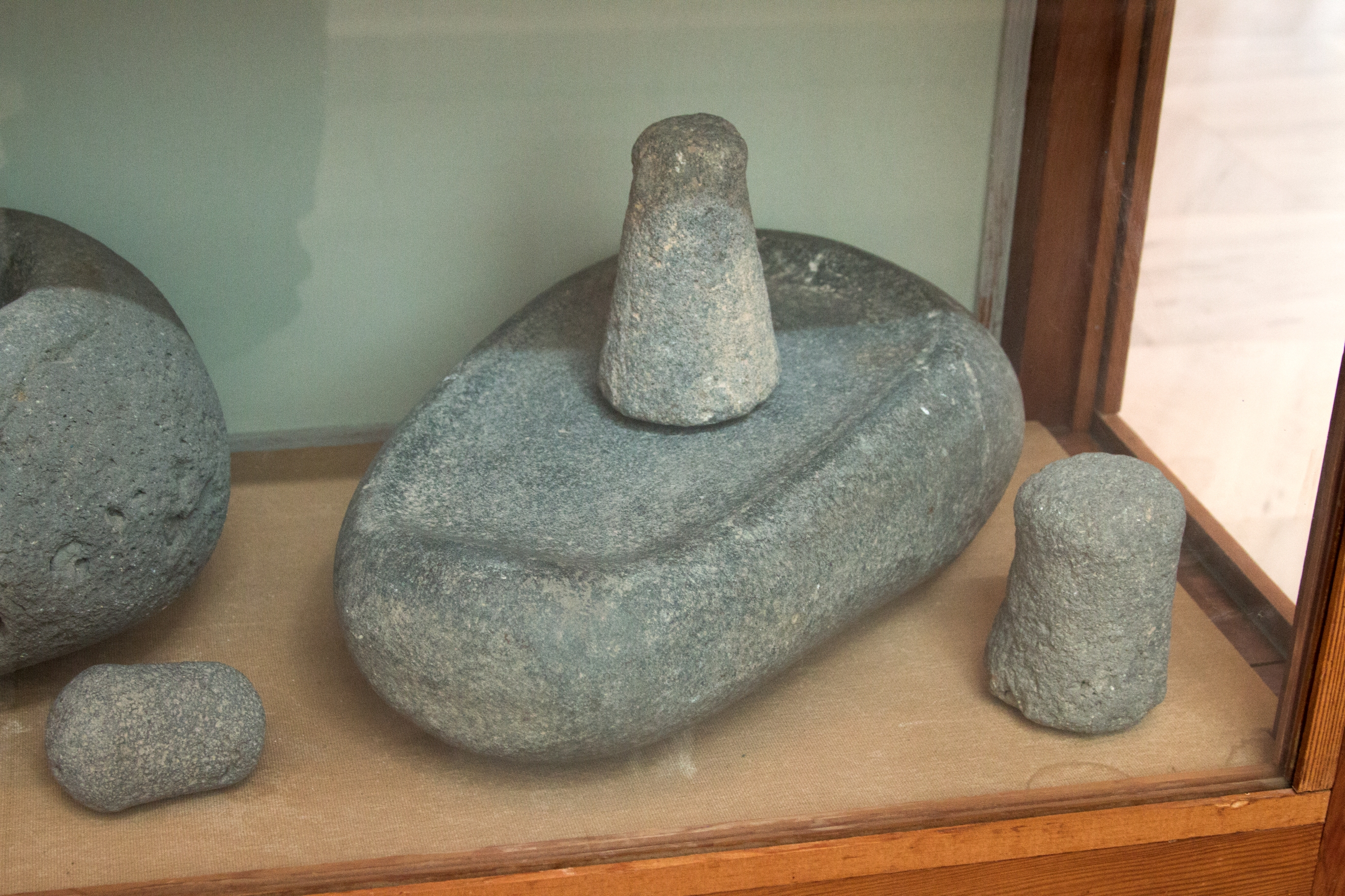 Stone tools: pestles, griders. Archaeological Museum of Milos. Date not indicated.